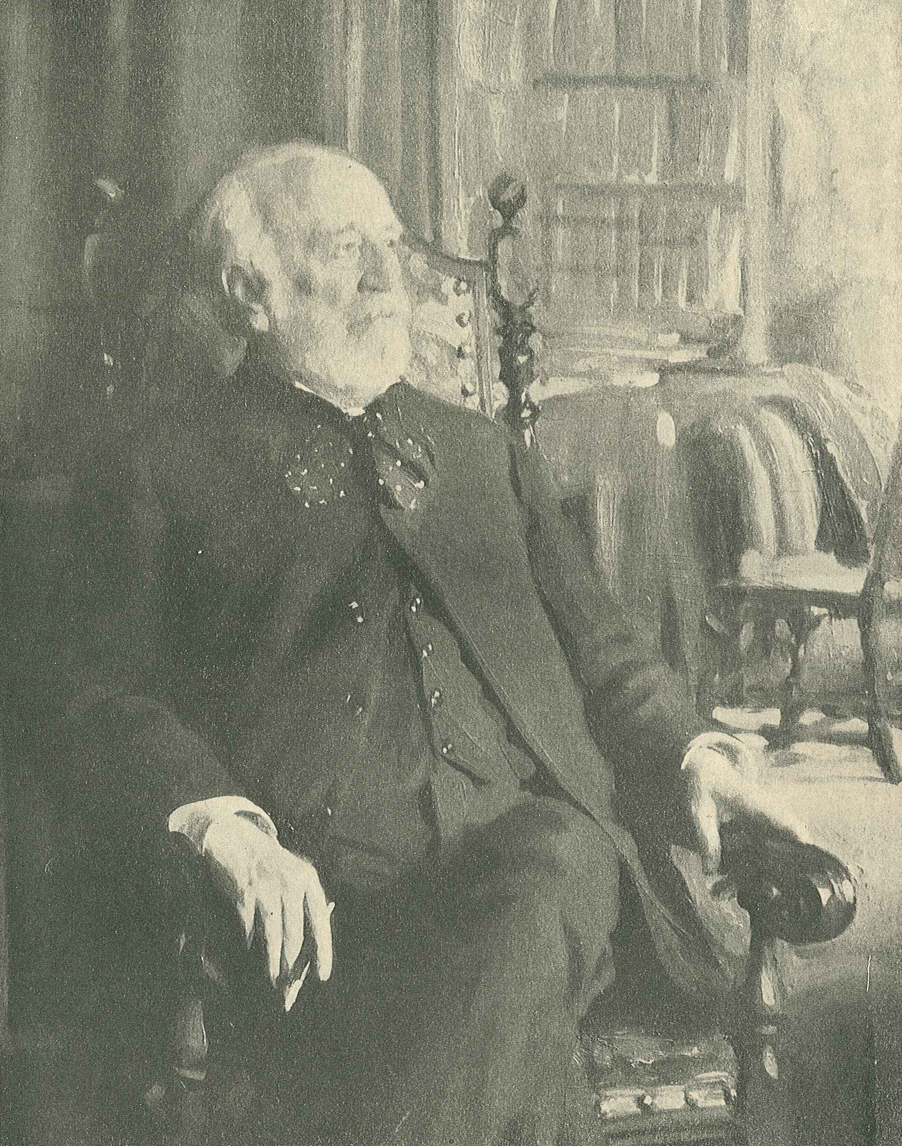 Professor Carl Curman (1833-1913) painted by Emil Österman (1870-1927)